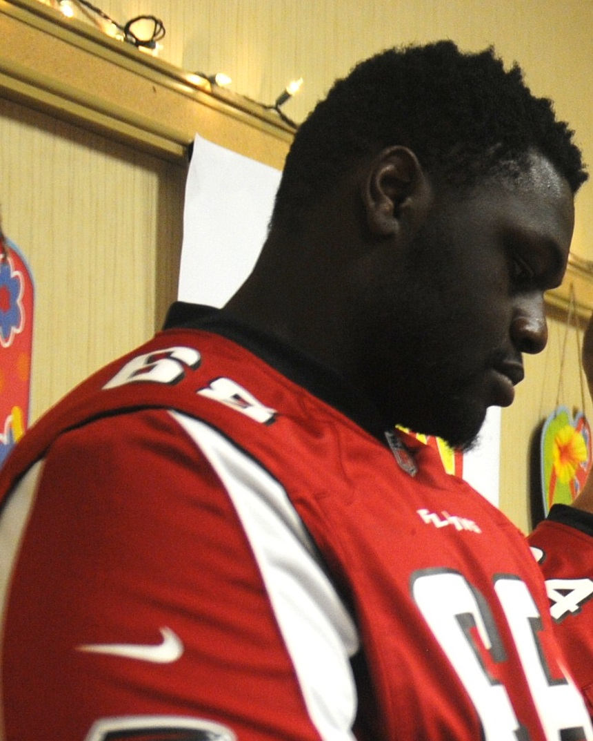 At the end of the first day of the National Guard Association of Georgia Conference, some of the Atlanta Falcons football players came out to show their love and support of our troops and their spouses. L-R: Phillipkeith Manley (#68), #34 Bradie Ewing, and #86 Chase Coffman